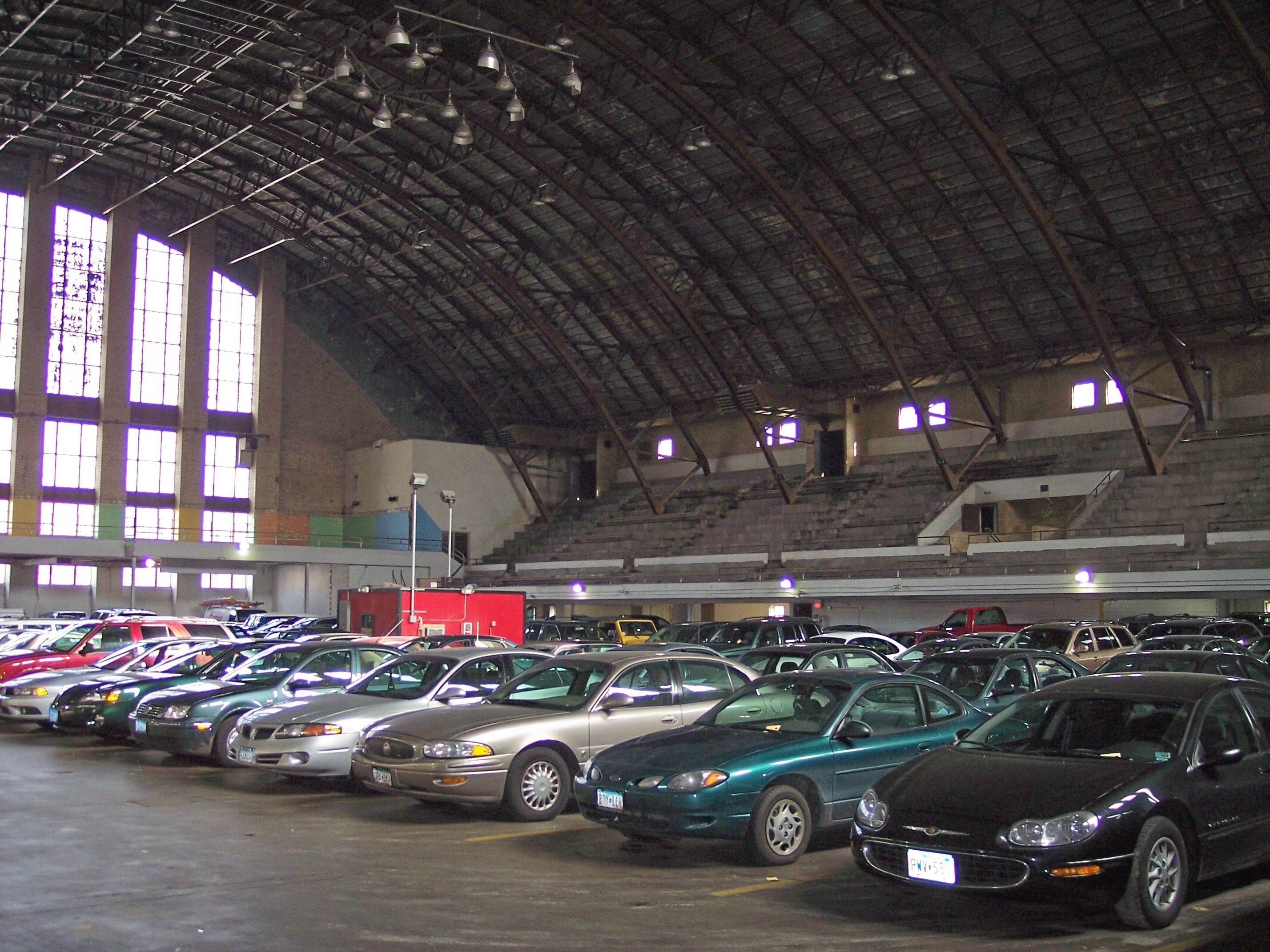 The interior of the Minneapolis Armory, an Art Deco structure constructed in 1936 for the Minnesota National Guard, later used as a venue for the Minneapolis Lakers. The building is on the National Register of Historic Places and is currently used as a parking lot.